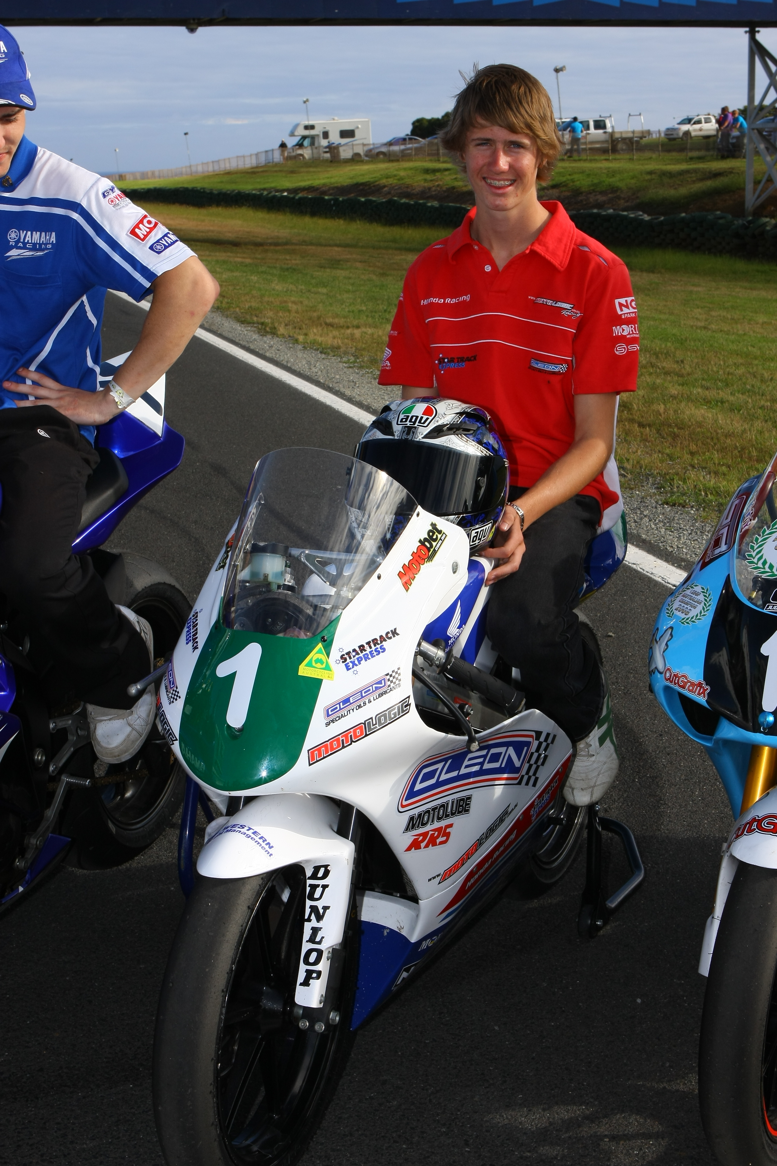 Mike Jones at the 2009 Australian Superbike Championship Round 7, Phillip Island, 29 November 2009